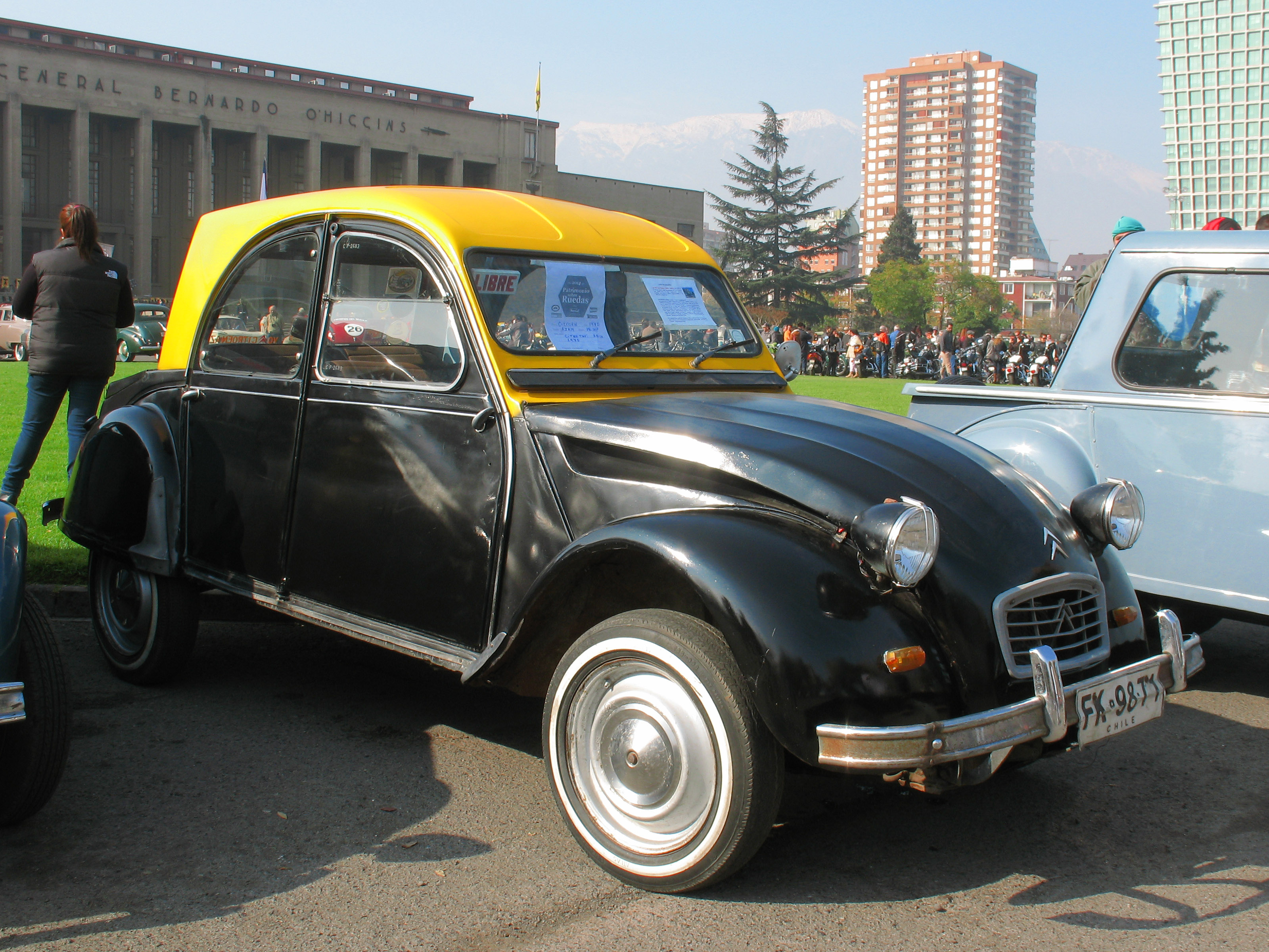 This is sort of a sedan version